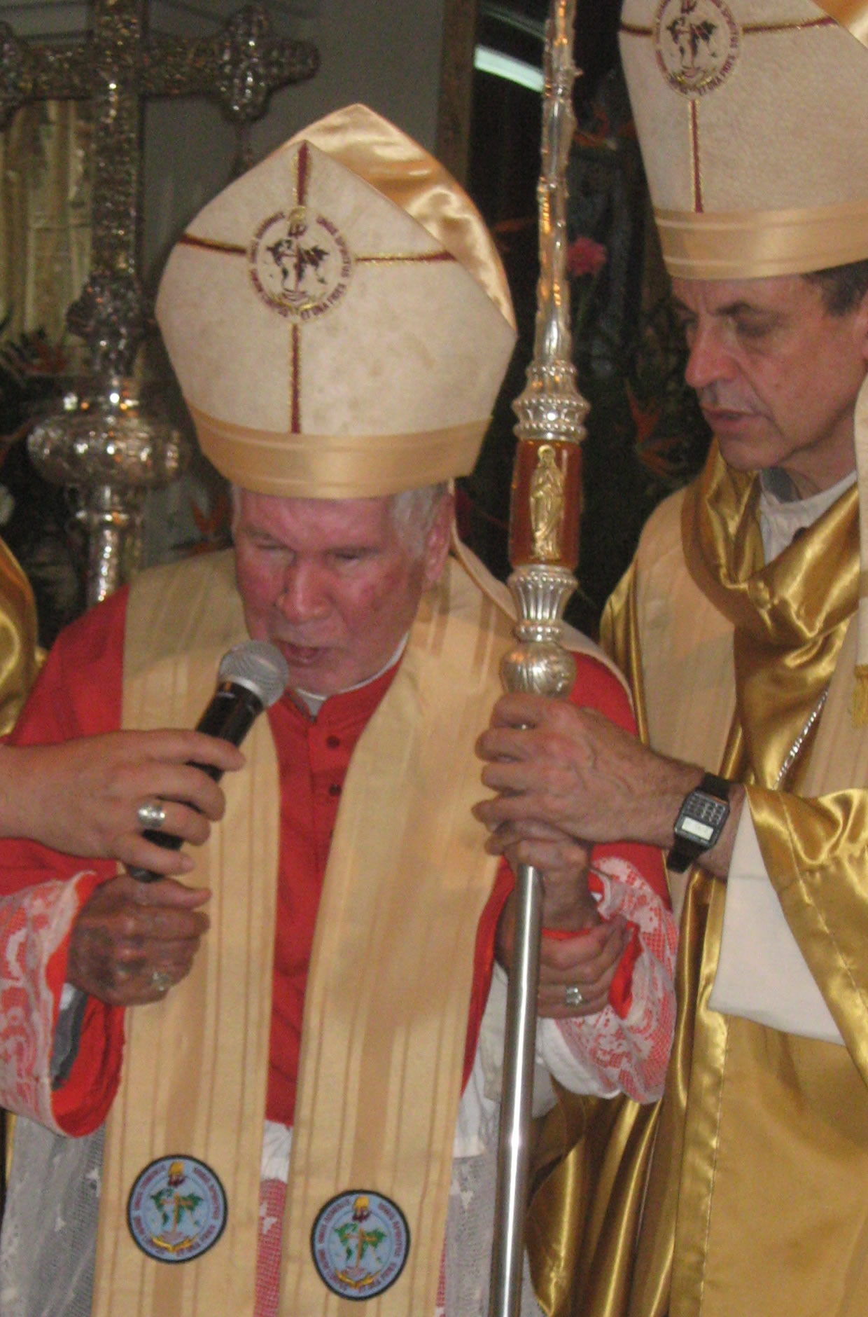 DOM LUÍS, EL PATRIARCA AND BISHOP AGUIRRE OF ICERGUA